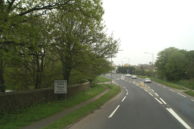 Big shot's home. On the A30